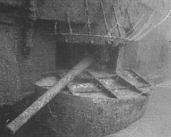 Port aircastle of Battleship Arkansas lying upside down at a depth of 180 feet in Bikini Lagoon. Photo from a 1989 National Park Service dive.